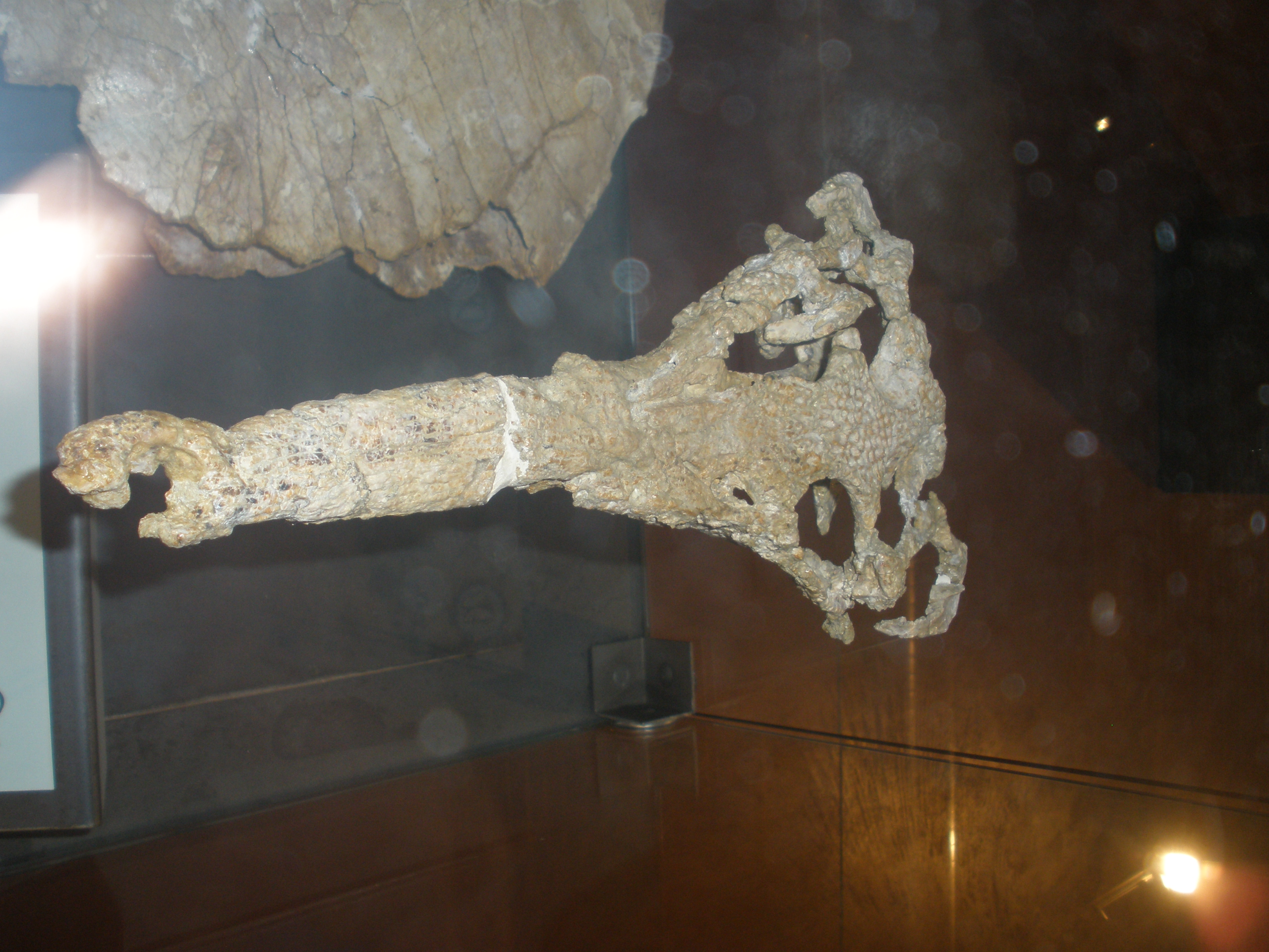 Fossil of Thoracosaurus, an extinct crocodile